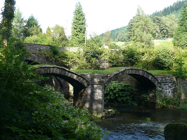 Packhorse bridge, Minllyn A nearby notice states: "Pont Minllyn. This packhorse bridge over the River Dovey was built sometime during the first half of the seventeenth century by the Rector of this Parish the eminent Welsh scholar, Dr. John Davies." It is in the care of Cadw. The packhorse bridge was replaced by the bridge behind it which has itself been replaced by a third bridge.